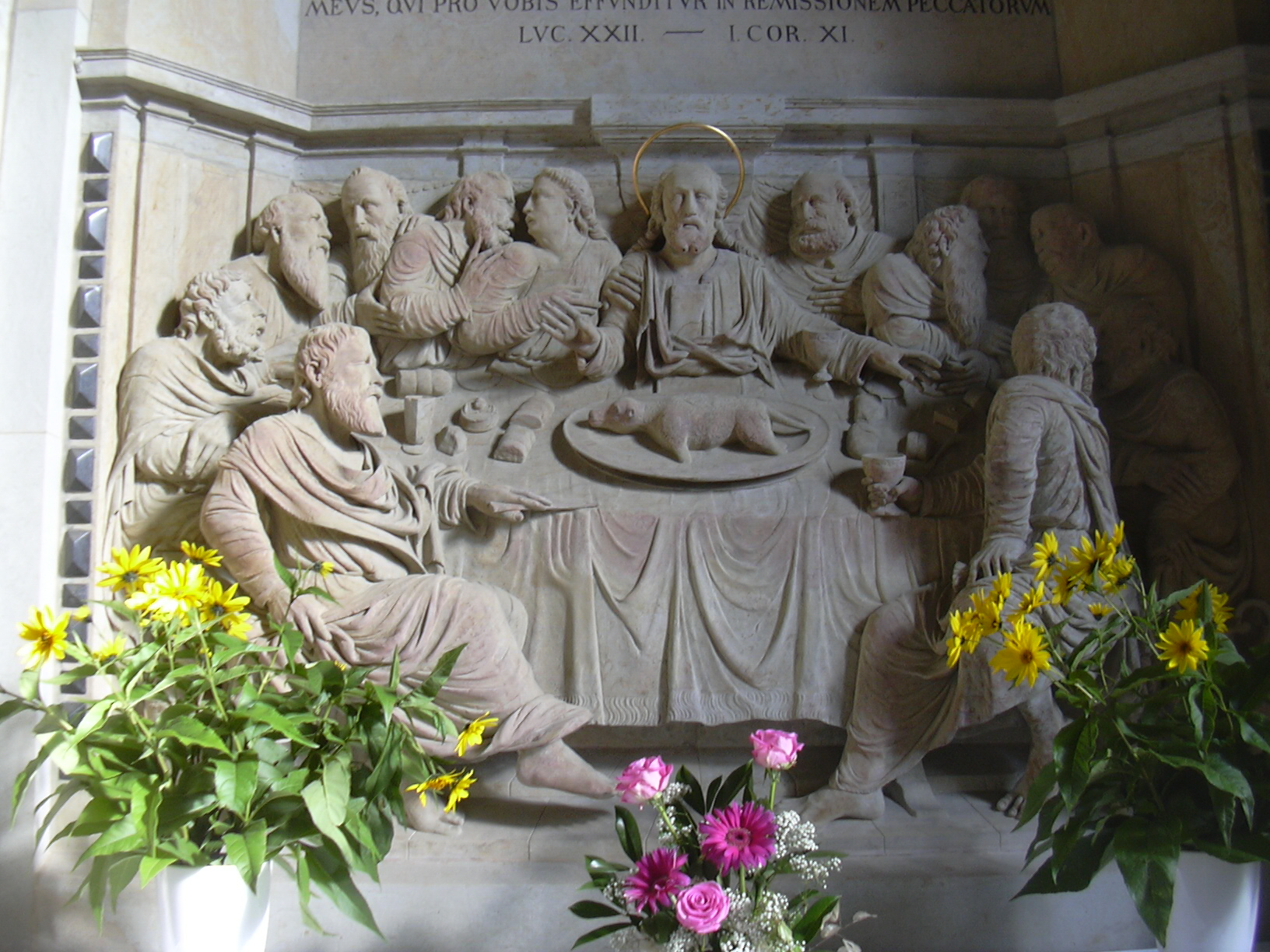 Last Supper, by Hans Walther II., Bad Schandau, St. Johannis, Protestant Church (Saxony/Germany)